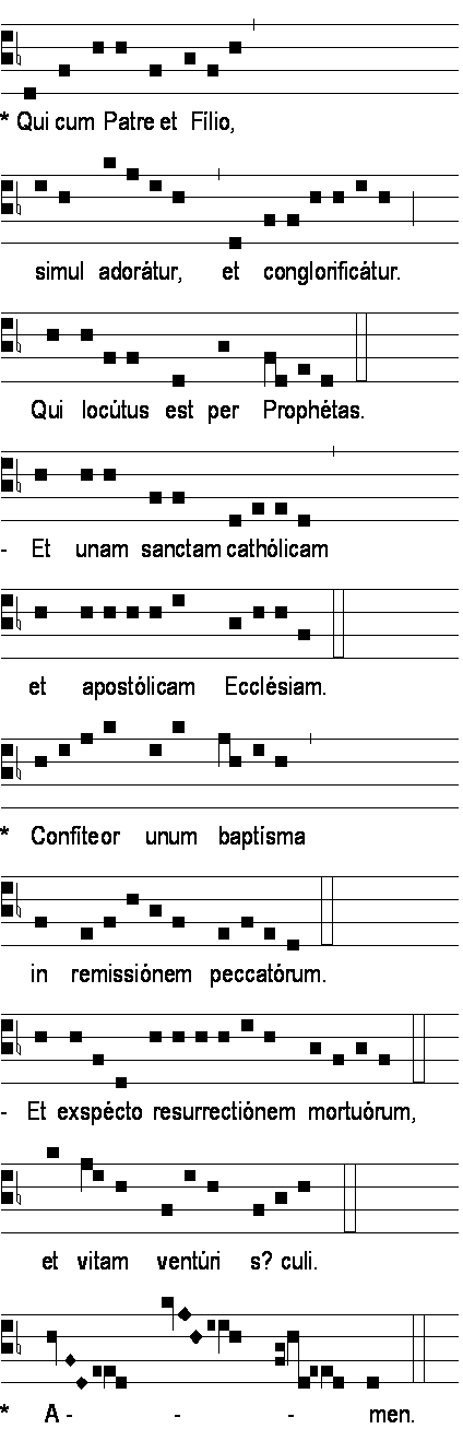 Credo III (image c)